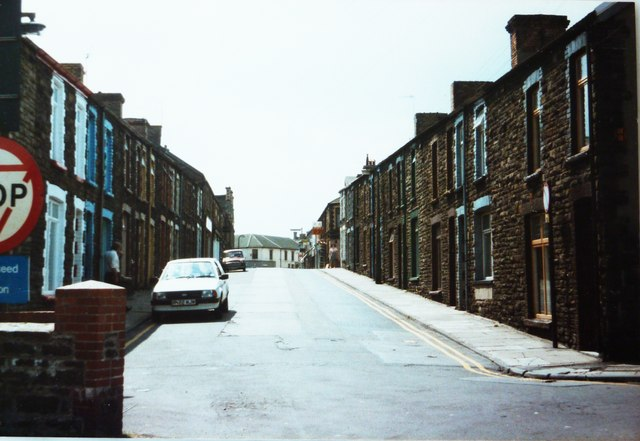 Deep Navigation Colliery, Treharris, view up Fox Street. This photograph is taken facing up Fox Street from the entrance gate to the Deep Navigation Colliery in Treharris. See 1728328. This photo was taken during the miners' dispute in 1984.